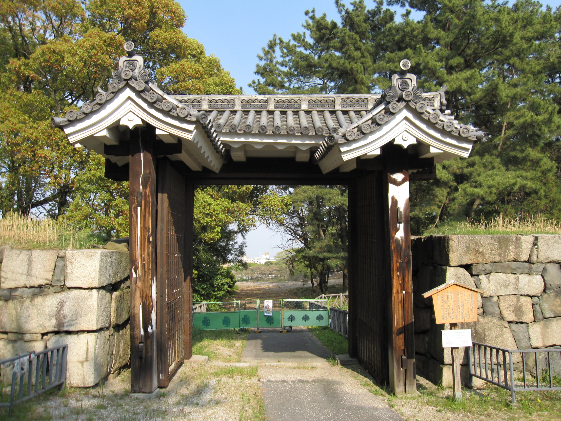 The old Ninomaru Second East Gate of Nagoya Castle, also called the East Iron Gate, was the outer gate of the Ninomaru enceinte on the east side. It was a square, box-like structure with two separate doors opening into and out of the enclosure. In 1963, the gate was dismantled and stored temporarily to make way for the construction of the Aichi Prefectural Gymnasium. In 1972, the gate was relocated to the side of the old Honmaru East Gate, where it stands today. The gate, built in the style of gates in ancient Korea, with a tile-covered slanting roof and plastered eaves, has iron-banded pillars, a crosspiece and doors.